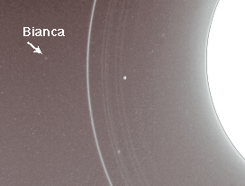 Bianca, moon of Uranus.